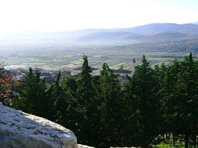 Town of Imotski, Croatia